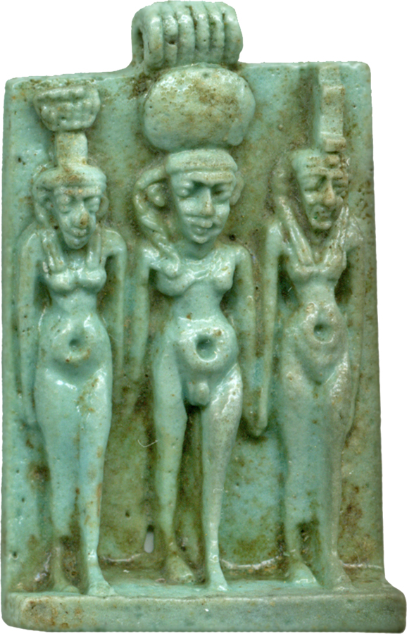 Pendants with representations of single gods or groups of deities were popular in the 1st millennium BC. This triad displays the juvenile god Harpocrates in the center, depicted as a nude boy with a side-lock and uraeus-serpent above his forehead. To his right his mother Isis is depicted and to his left is Nephthys. The two goddesses have the hieroglyphic signs which represent their names as crowns on their heads; for Isis it is the throne, and for Nephthys the combination of a temple with a basket. The three figures are formed half in the round; they have a rectangular backplate and base. The relationship between these three deities is an important part of the Osiris and Horus myth. Both female goddesses protect the juvenile god of kingship, Horus, against the attacks of his powerful uncle Seth, the god of the wild and uncontrolled nature, who tries to gain control of the universe. The small group is part of a set of nearly identical amulets (together with Walters 48.1673, 48.1675-80). Such amulet groups were placed on the mummy between the wrappings.